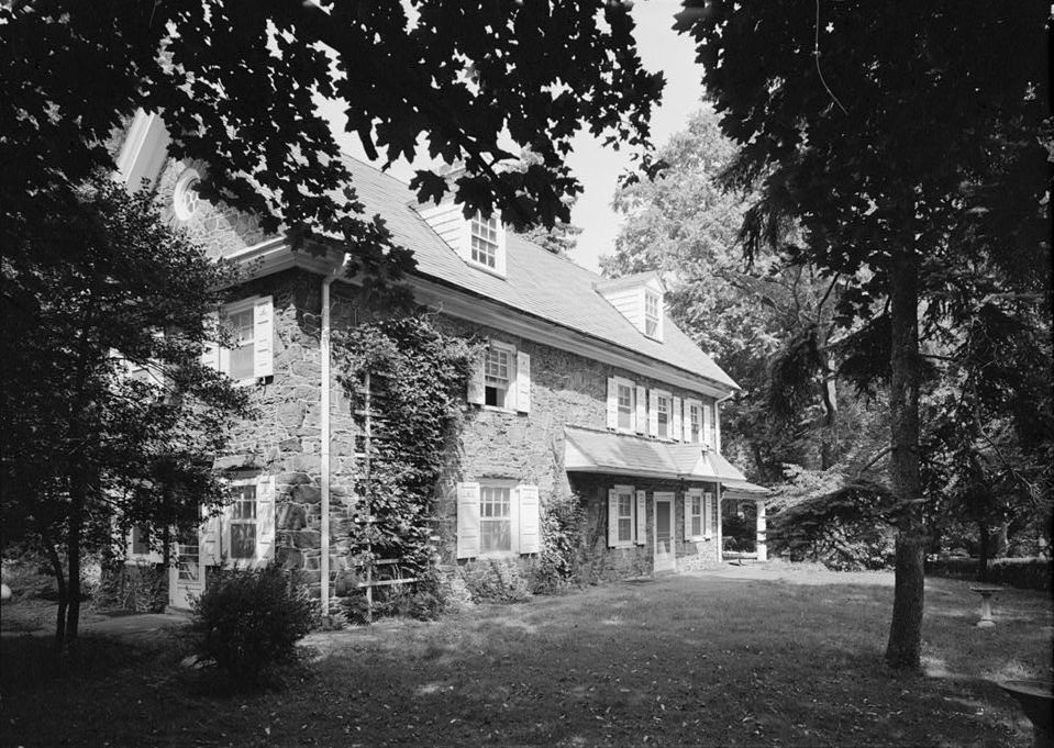 "Wynnestay" (Dr. Thomas Wynne House), 5125 Woodbine Avenue, Philadelphia, Pennsylvania (built 1689, expanded 1799, addition early 20th century).